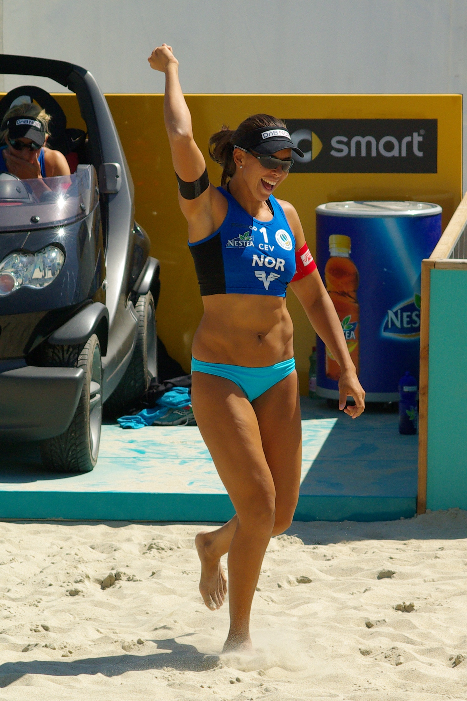 Norwegian Beach volleyball player Nila Ann Hakedal at the European Championship Tour 2008 Austrian Masters in St. Pölten.